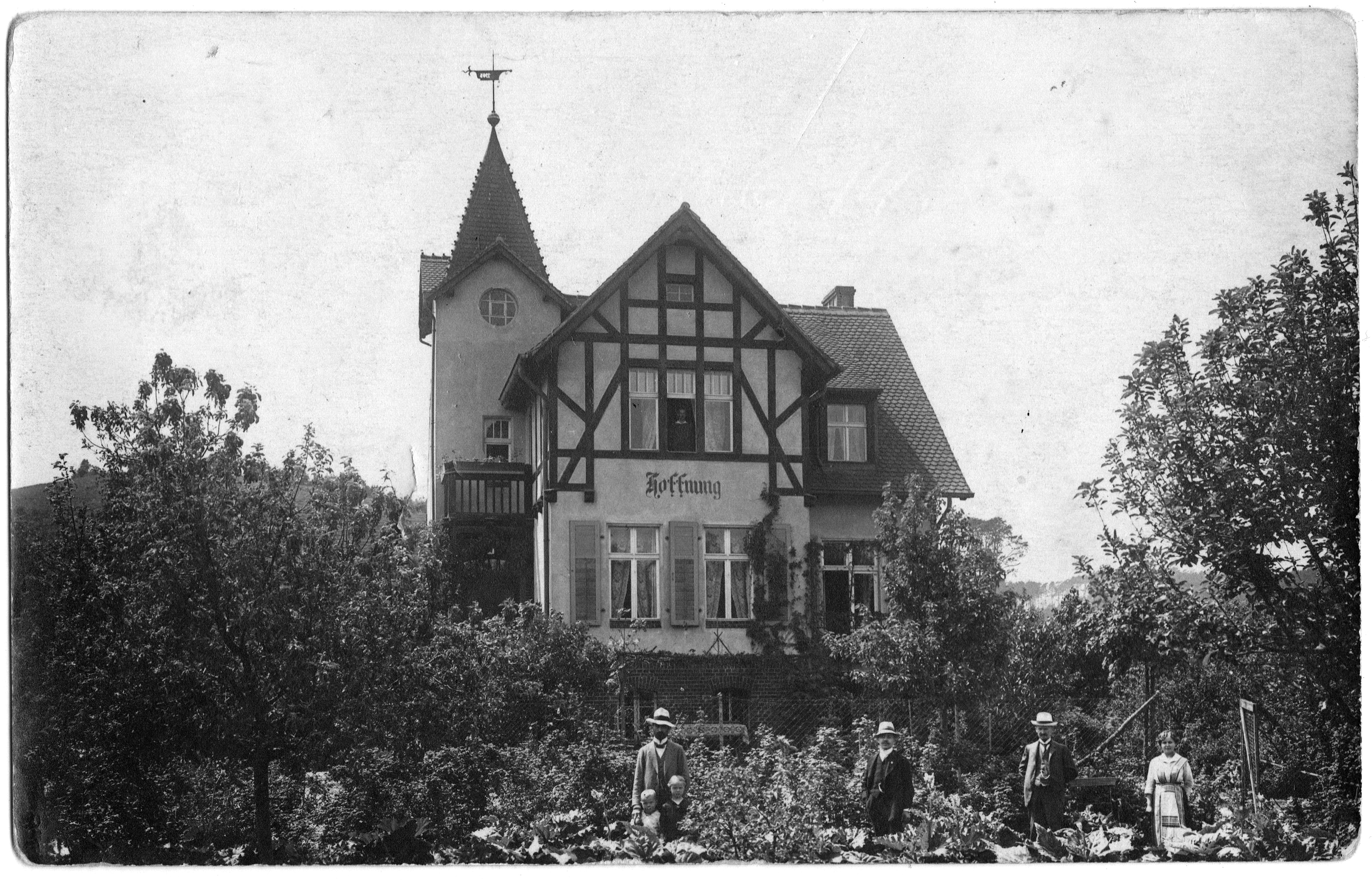 Postcard 1914, photographer Paul Gottwald, Neuköln, Vegetarisches und Diät-Erholungsheim „Hoffnung“, Bad Freienwalde (Oder), 21.05.1914